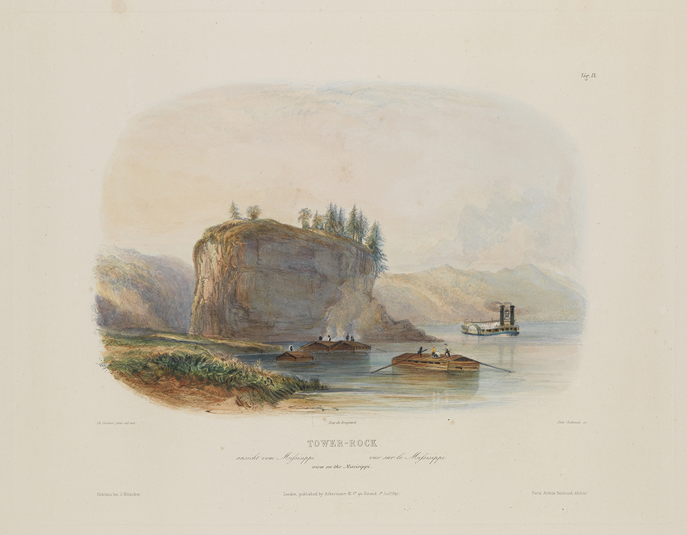 Title: Tower-Rock view on the Missisippi [sic]. Creator: Bodmer, Karl, 1809-1893 (illustrator); Bougeard (printer); Outhwaite, John (engraver) Date: January 1, 1839 Place: Tower Rock, Brazeau Township, Perry County, Missouri Part Of: E165 .W65 Physical Description: 1 print: aquatint, part of 1 portfolio (81 prints); 46 x 61 cm File: vault_folio_2_e165_w65_09_opt.jpg Rights: Please cite DeGolyer Library, Southern Methodist University when using this file. A high-resolution version of this file may be obtained for a fee. For details see the web page. For other information, . For more information, View the full series: in the interior of North America/mode/exact View North America: Photograph, Manuscripts, and Imprints